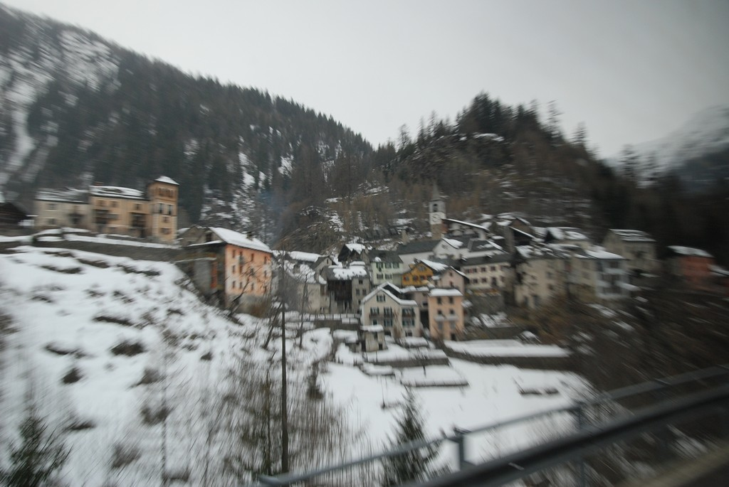 Fusio, Ticino, Switzerland from inside a bus